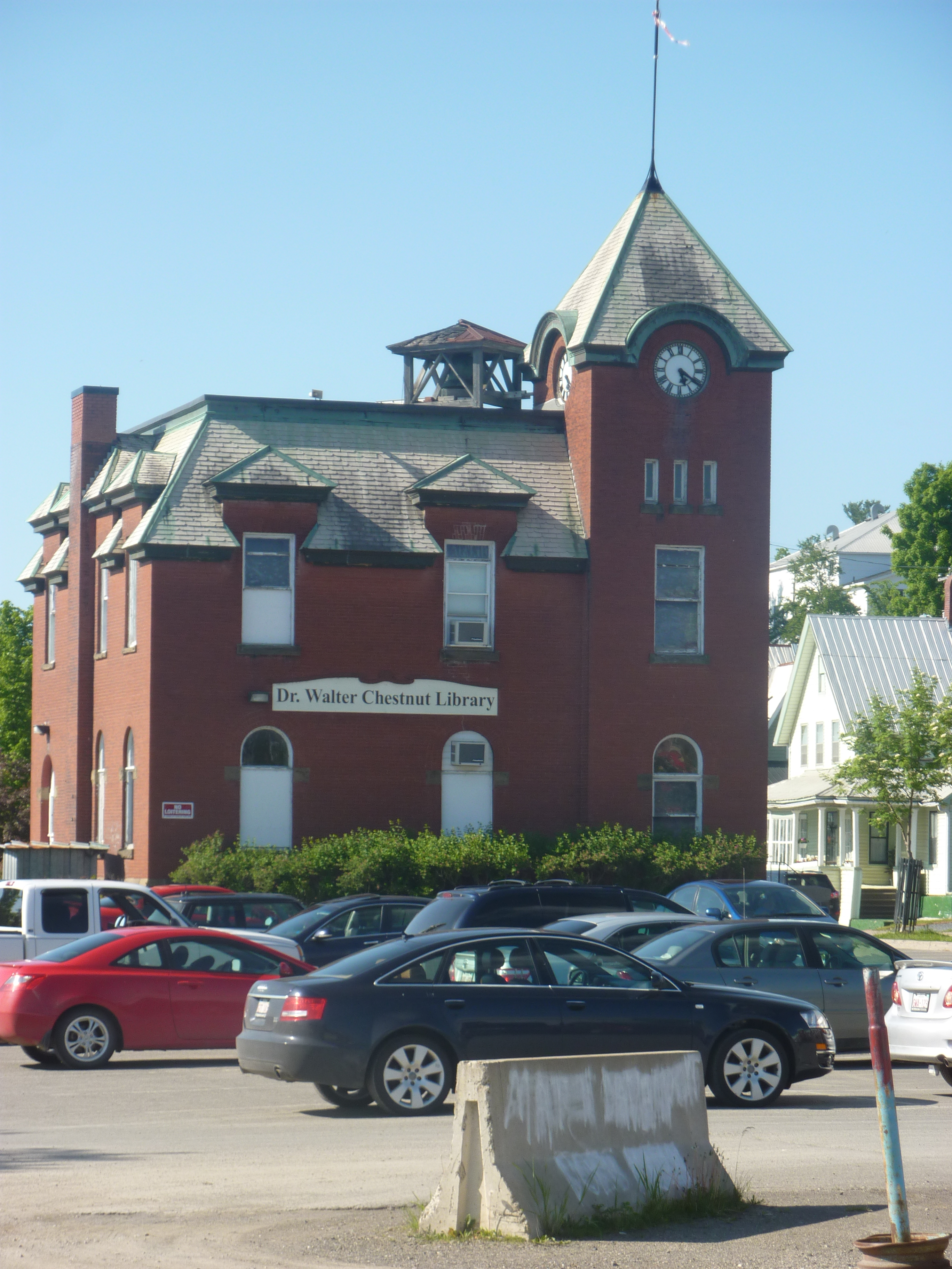 Dr Walter Chesnut Library in Hartland, New Brunswick